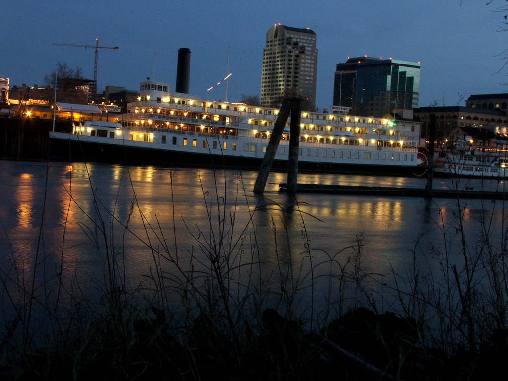 The Delta King at the Sacramento water front at Dusk